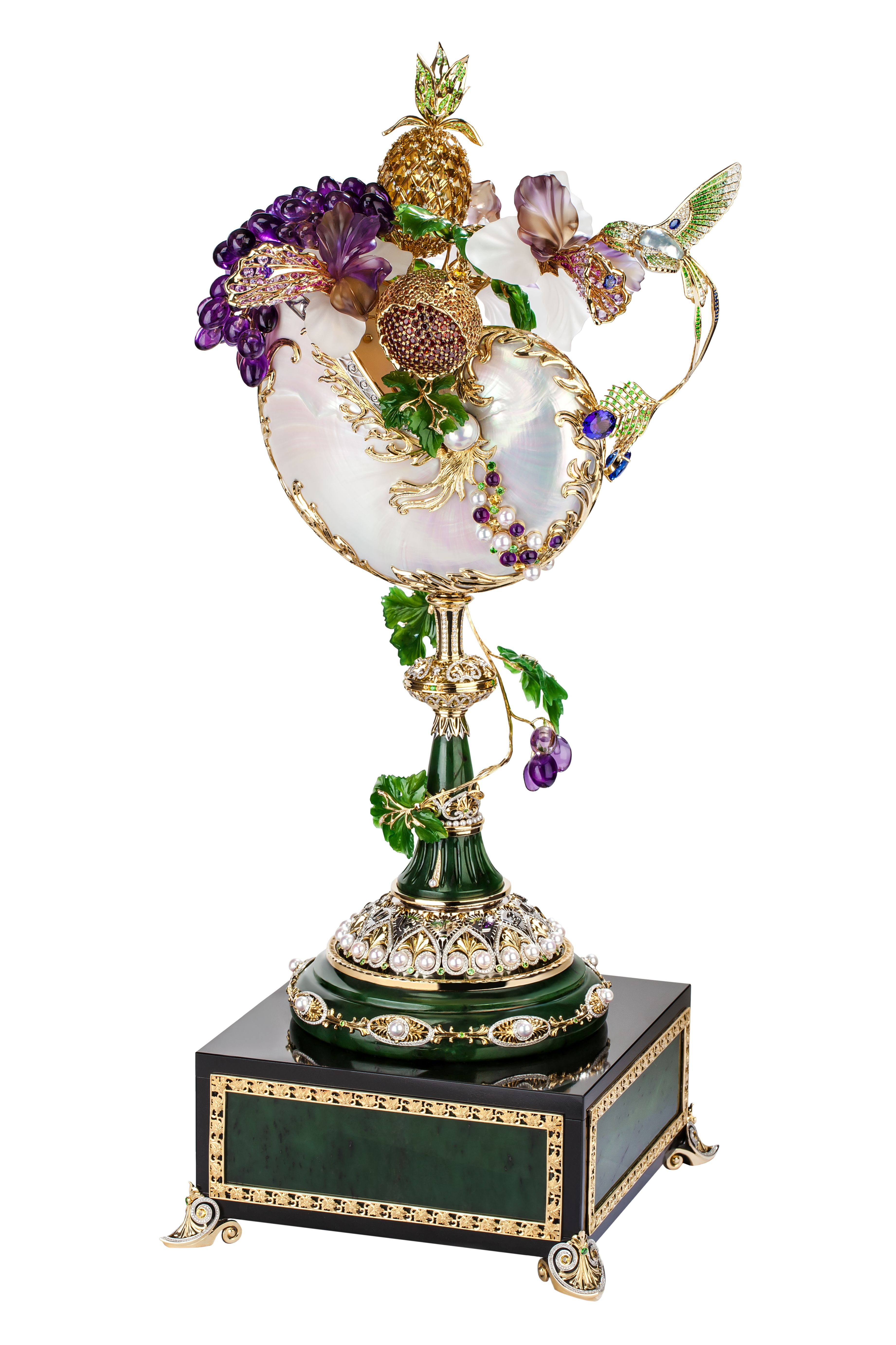 Интерьерные часы "Рог Изобилия", Компания MOISEIKIN